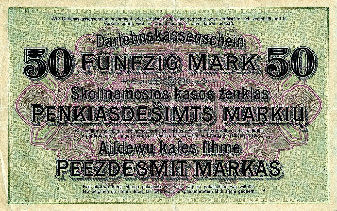 The reverse side of a 50 mark note issued by the German occupation authorities in 1918 for the Baltic States (the Ober-Ost) with a trilingual inscription (German, Lithuanian, Latvian)